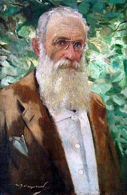 Autoportrait, Jan Mrkvička, 1926